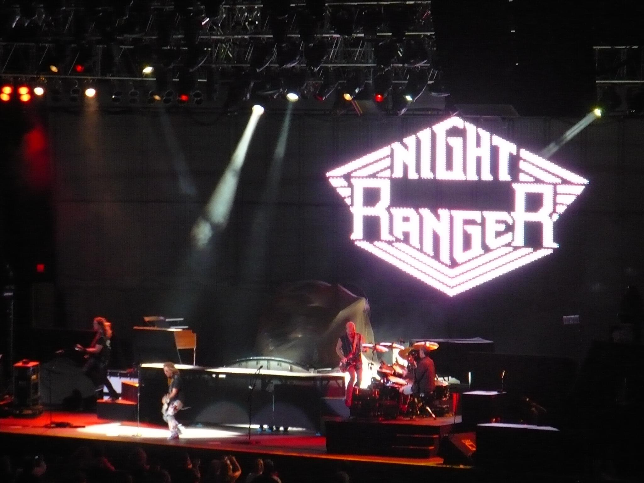 Night Ranger - October 30 2009, Tampa